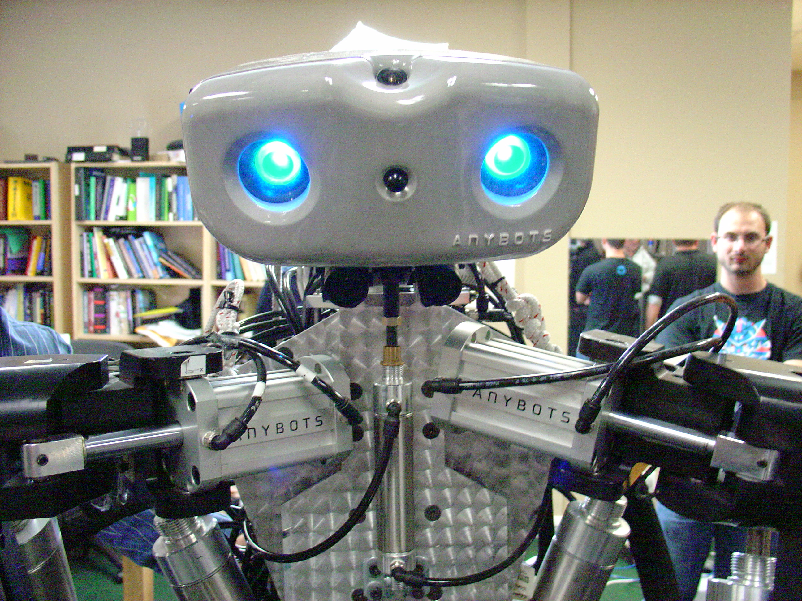 Close up headshot of the Monty robot made by Anybots.